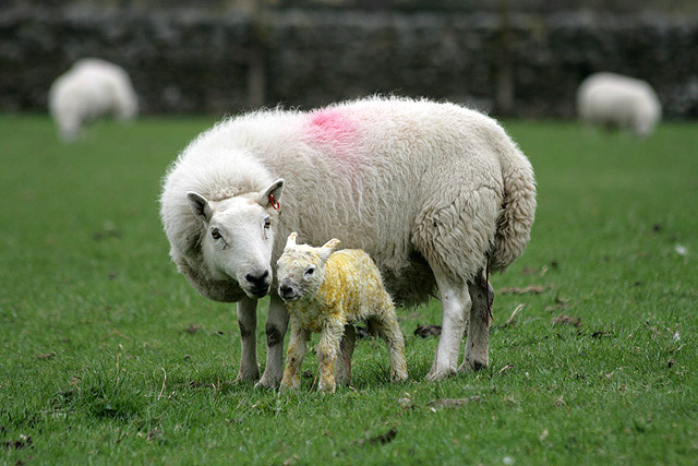 A new arrival at Henderland A new born lamb gets a look of approval from mum in a field at Henderland Farm.